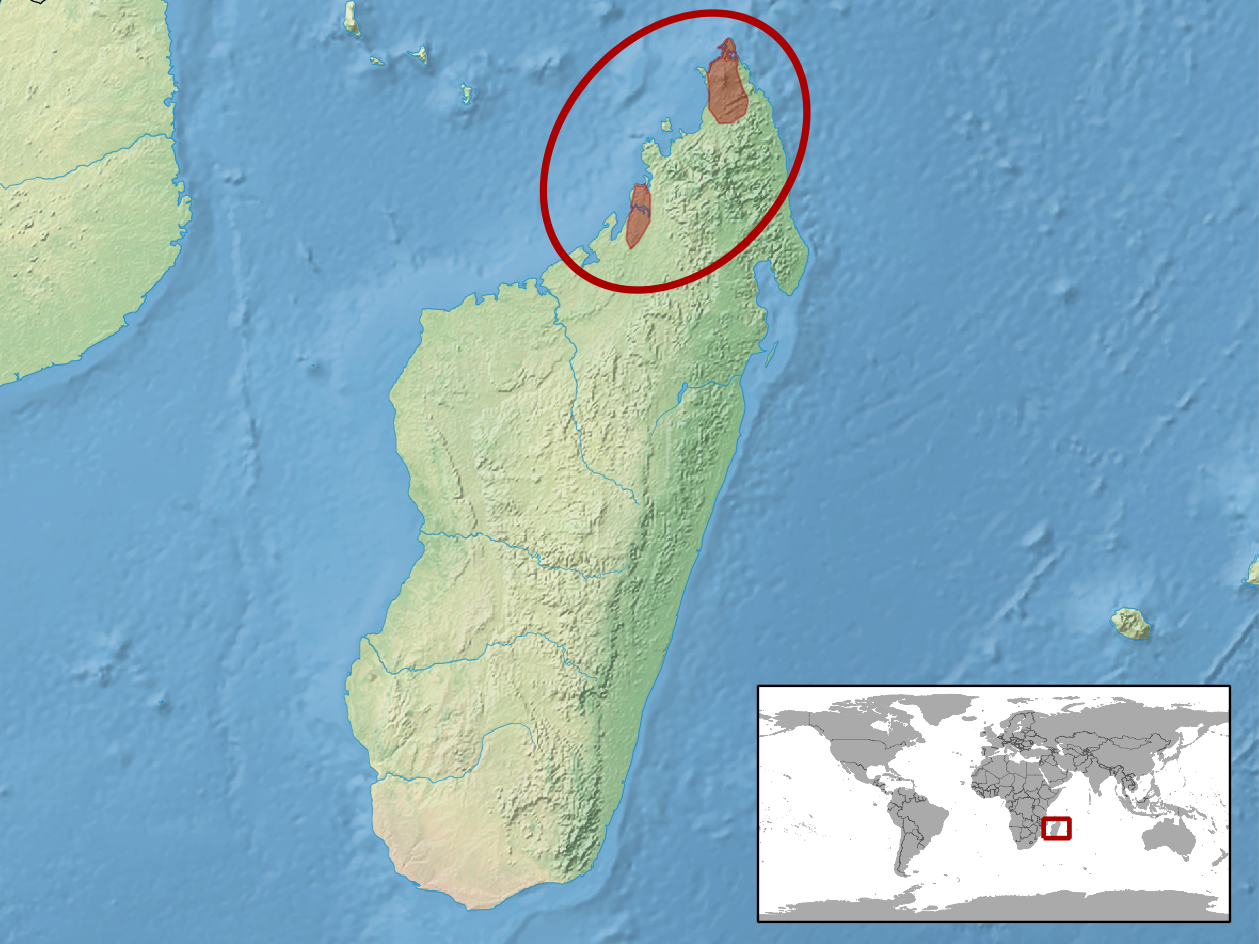 geographic distribution of Blaesodactylus boivini (Native: Madagascar)